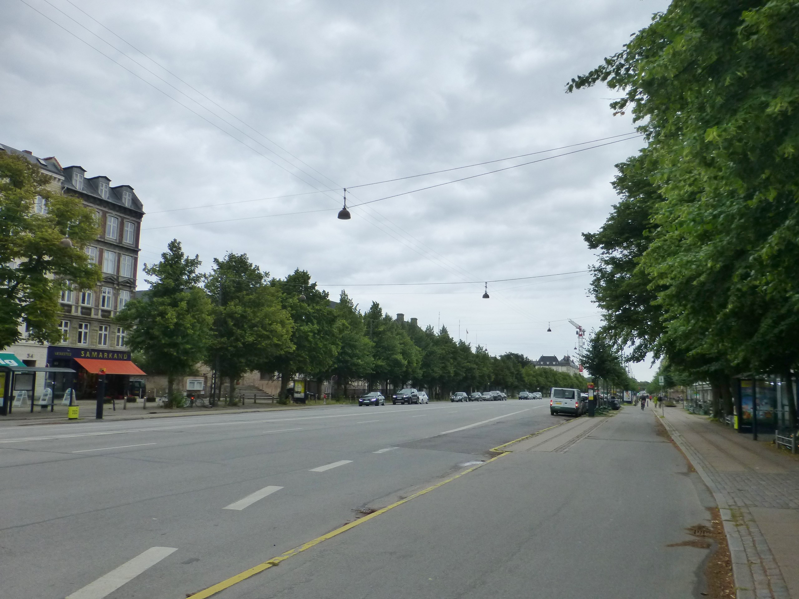 The street Dag Hammarskjölds Alle in Østerbro in Copenhagen.